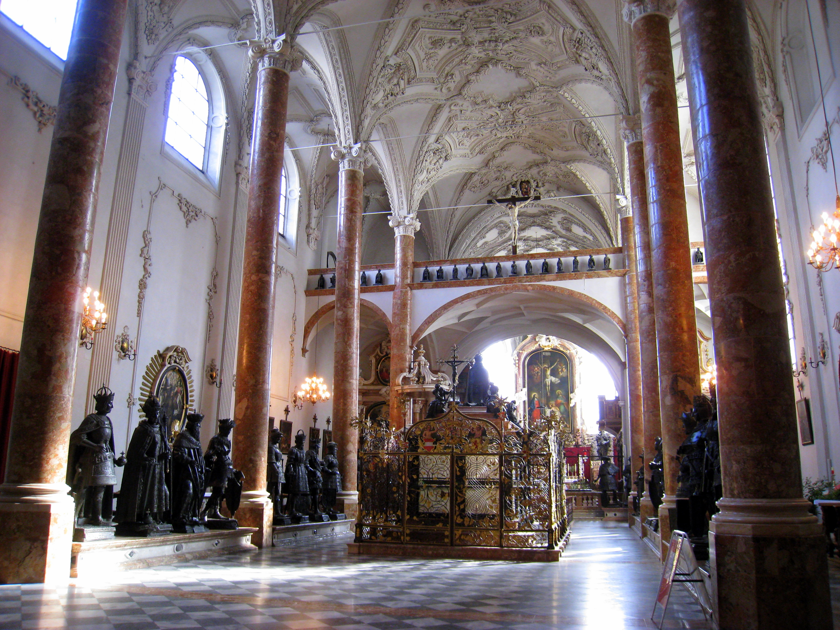 Hofkirche, Innsbruck, Austria - view towards altar.